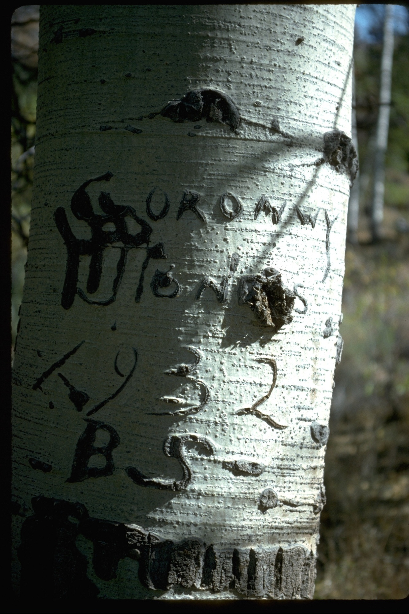 Basque carvings on Aspen tree near Steens Mountain.